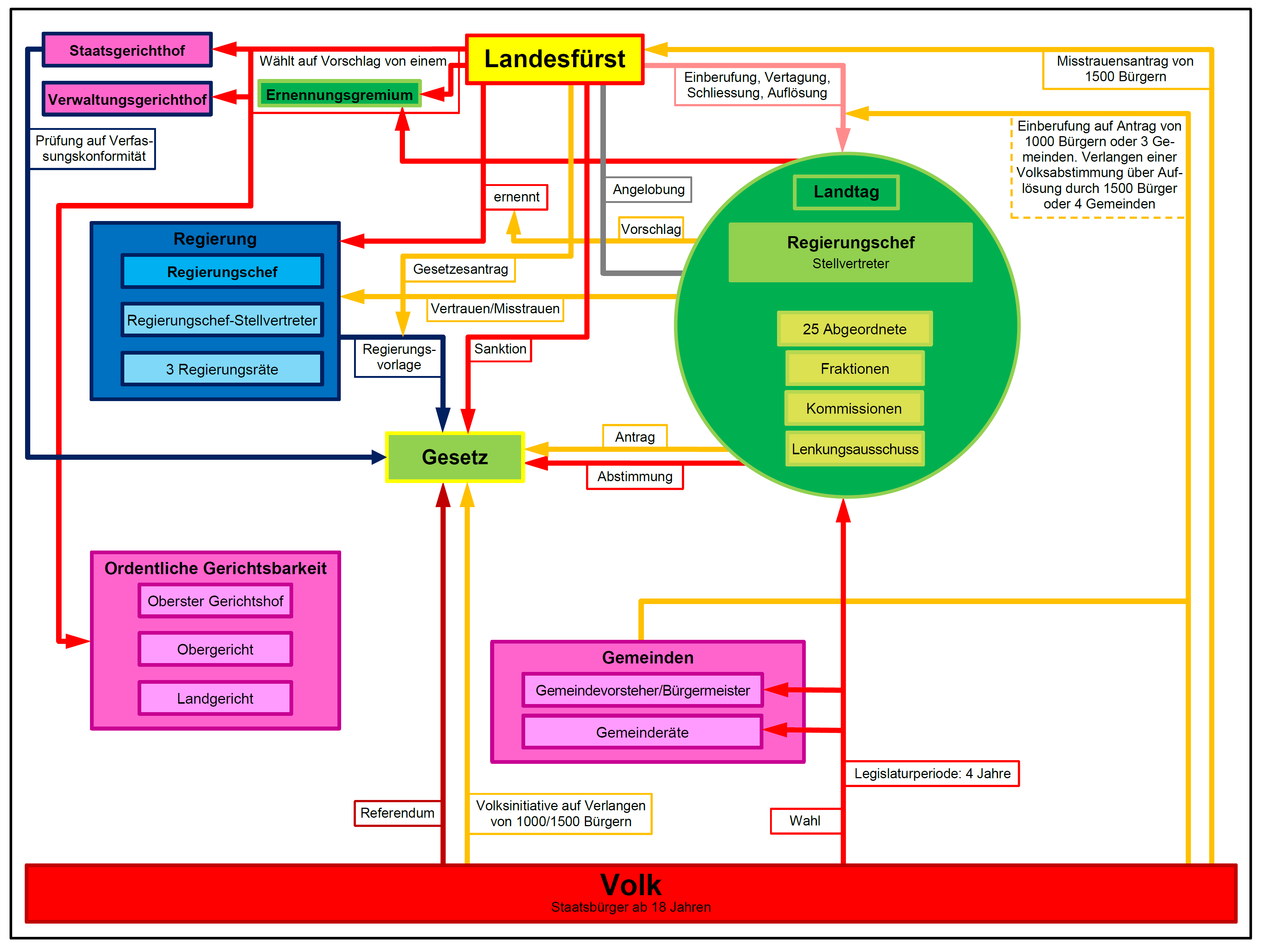 The political system of the principality of Liechtenstein